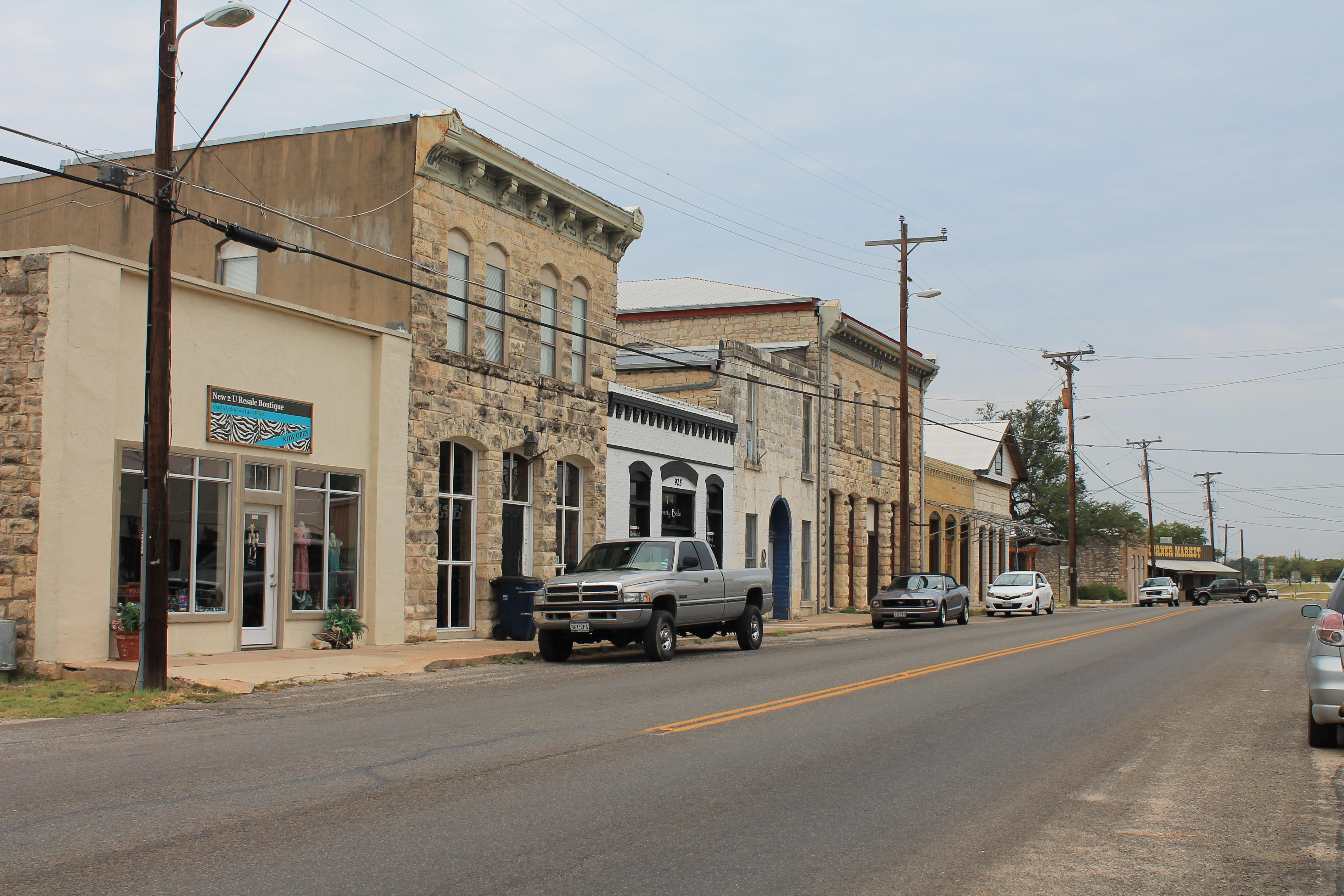 Liberty Hill, Texas